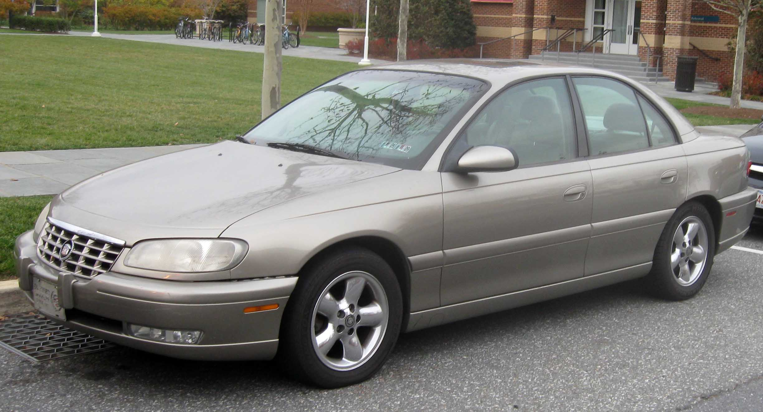 1997-1999 Cadillac Catera photographed in College Park, Maryland, USA.